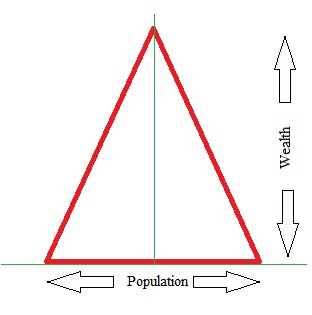 Illustration Explaining Wealth Pyramid